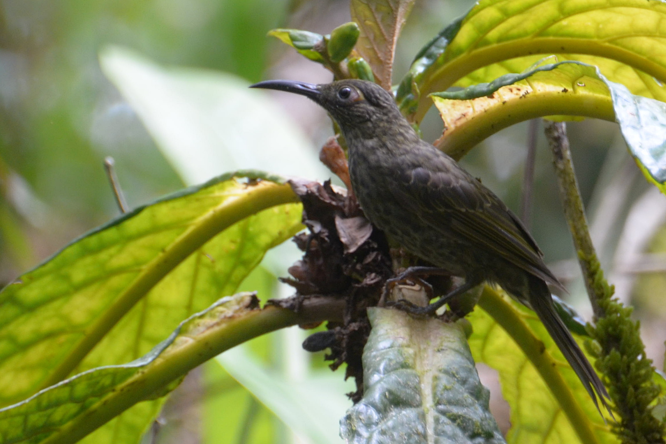 Dark-eared myza (Myza celebensis) at Mount Ambang Nature Reserve, North SulawesiBahasa Indonesia: Cikarak sulawesi (Myza celebensis) di Cagar Alam Gunung Ambang, Sulawesi Utara